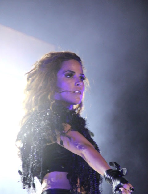 Wanessa performing in her 'DNA Tour' on 2013